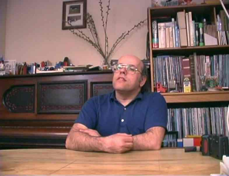 Steve Punter, inventor of the Punter file transfer protocol